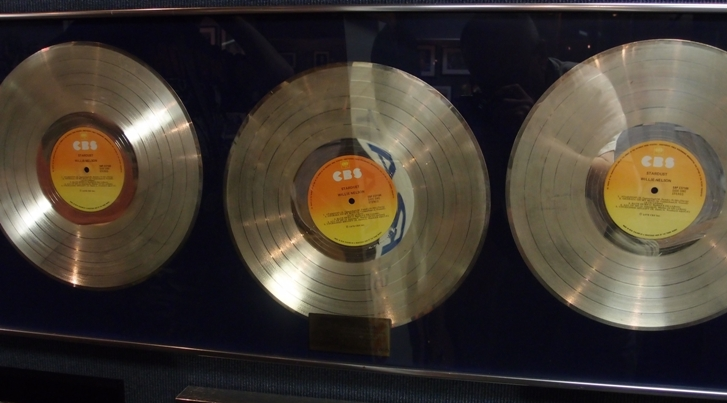 Triple platinum certification of Willie Nelson's "Stardust" by RIANZ (New Zealand) in Willie Nelson And Friends Museum Showcase in Nashville, TN.